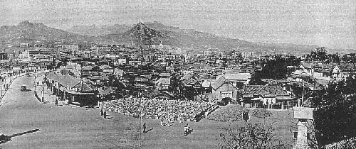 Keijo in 1935